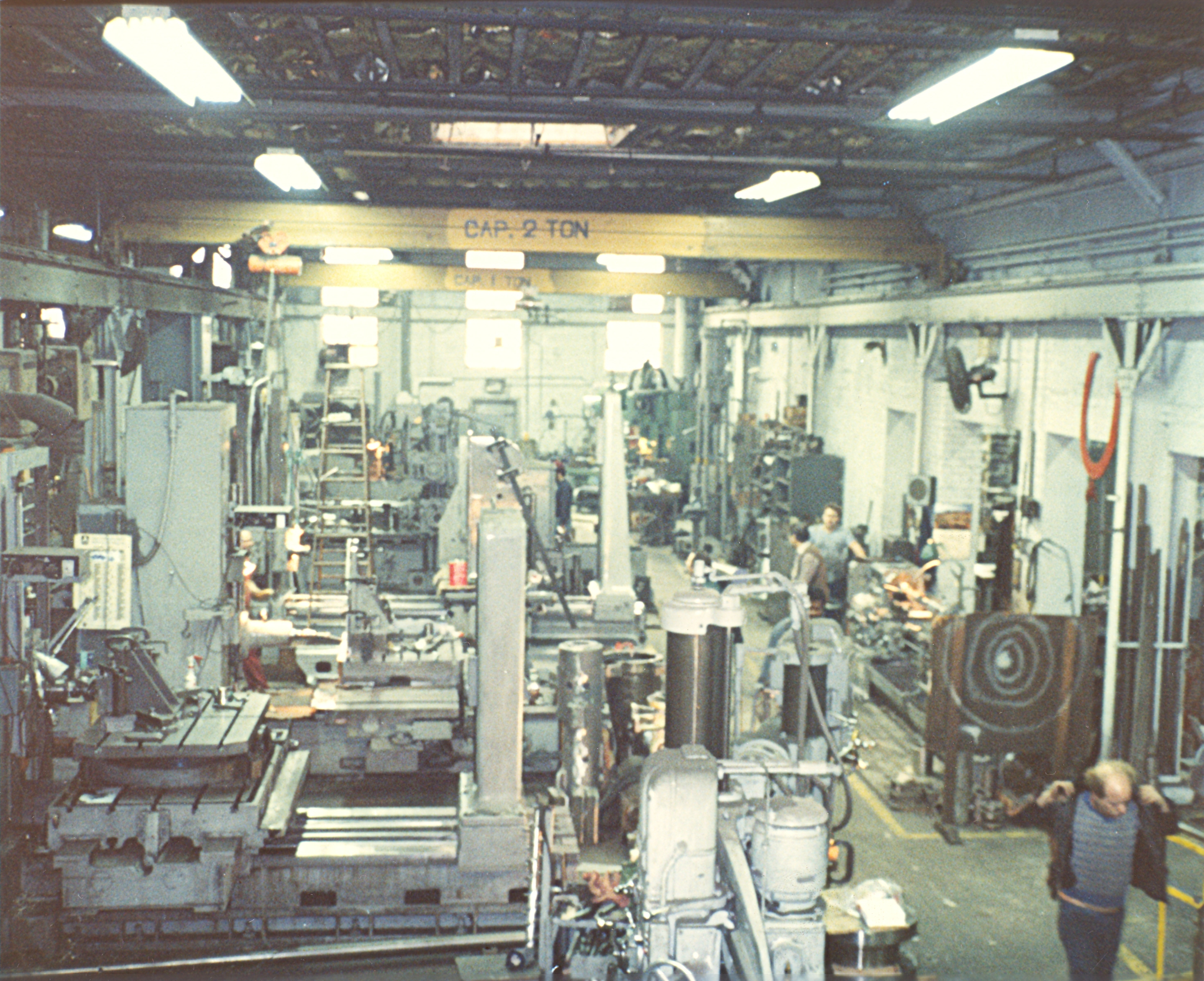 DEMACO, 46-45 Metropolitan Avenue, Ridgewood, New York. DEMACO manufactures industrial, high capacity pasta machines.